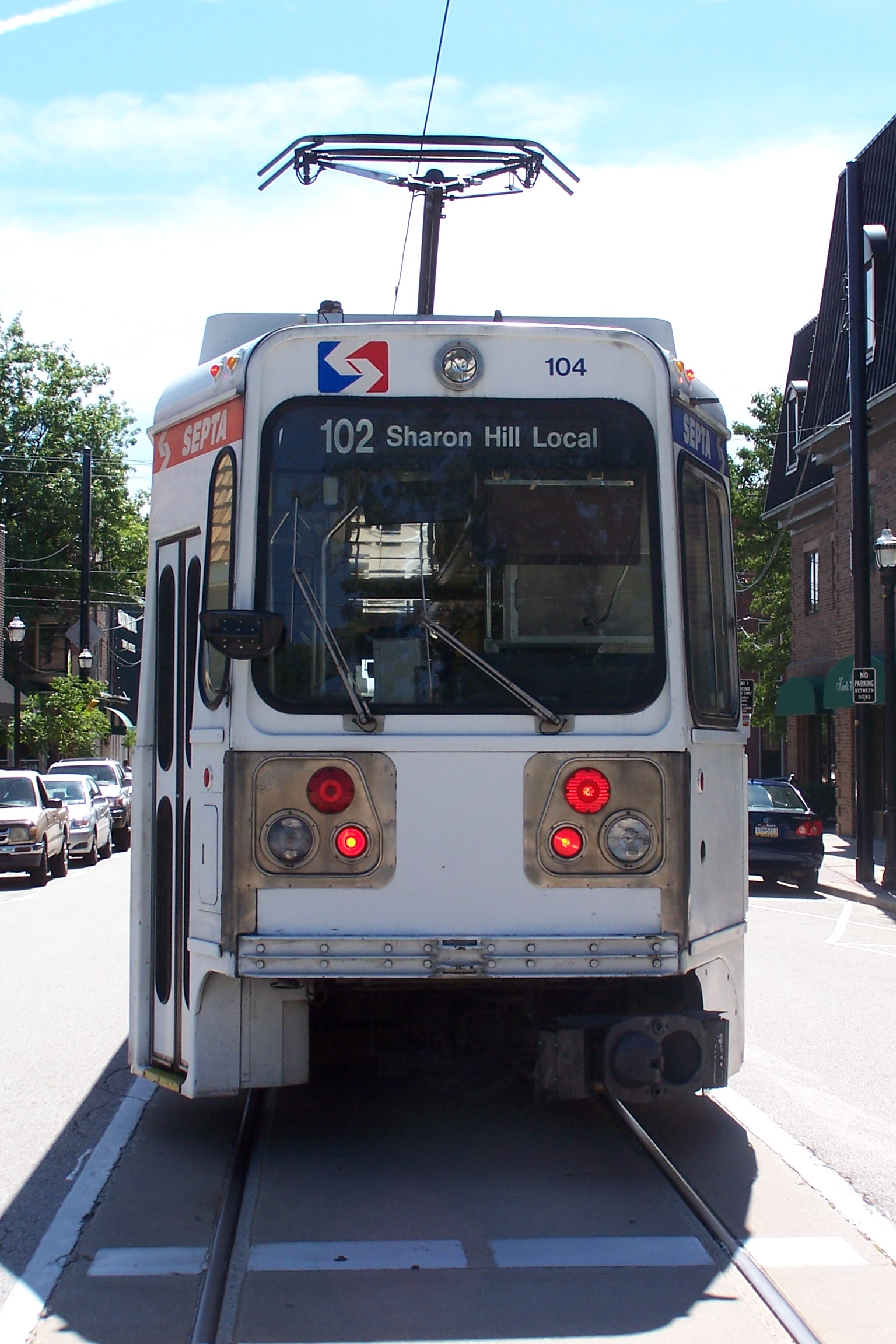 SEPTA Route 101 at the end of the line in Media, PA. Don't let the "Sharon Hill" sign on the trolley fool you. This is Media.